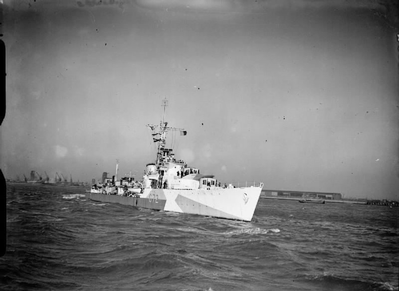 HMS Scorpion Underway at sea